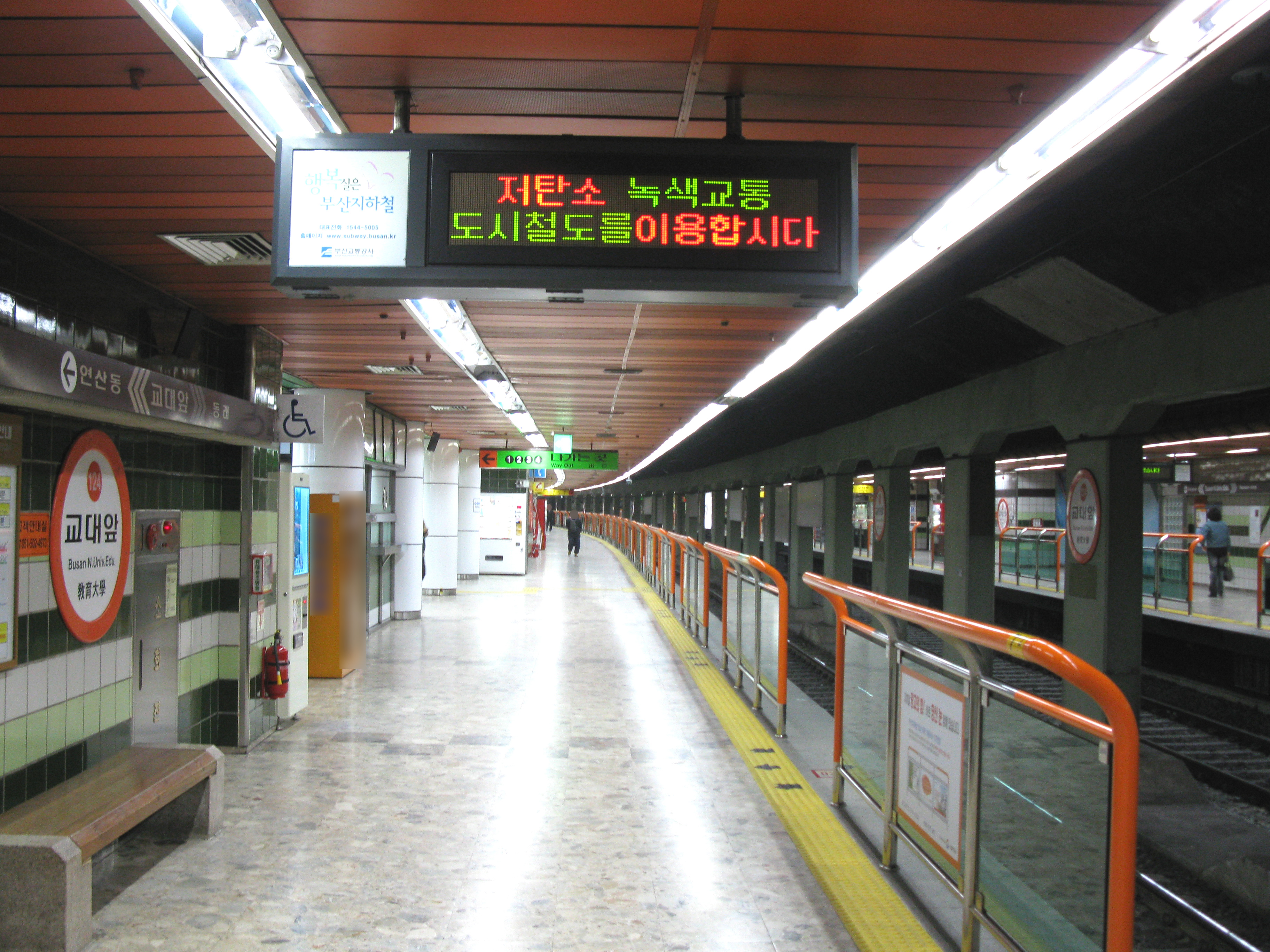 Busan Nat'l. Univ. of Education Station platform (Busan Subway Line 1)